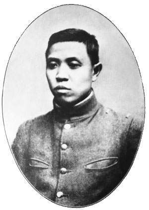 Jui Chu, around 1912